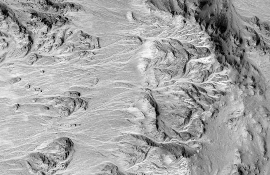 Alluvial fans in Mojave Crater of Mars, as seen by Hirise. Location is 7.6 N and 327.4 E.